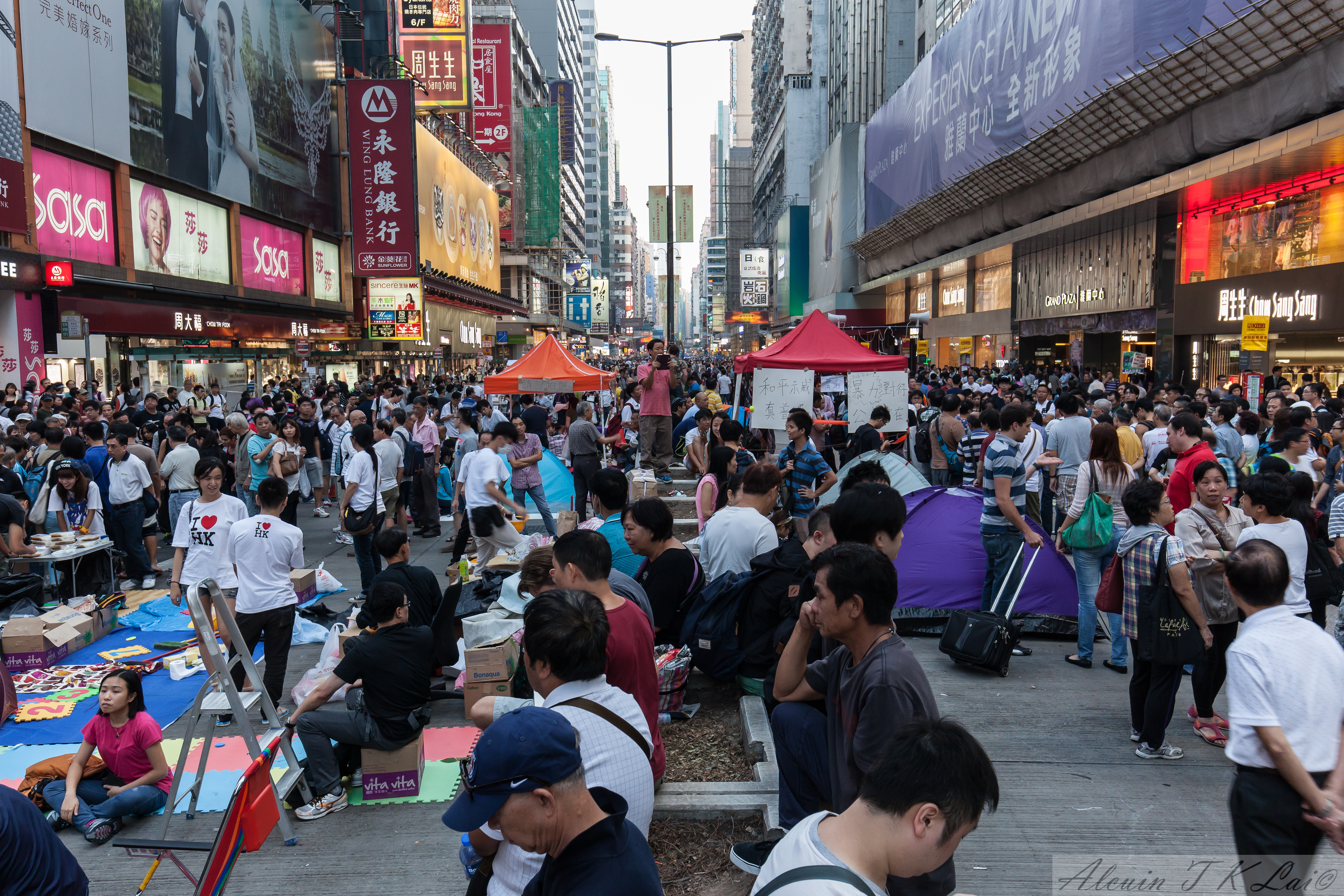 Umbrella Revolution Mong Kok View